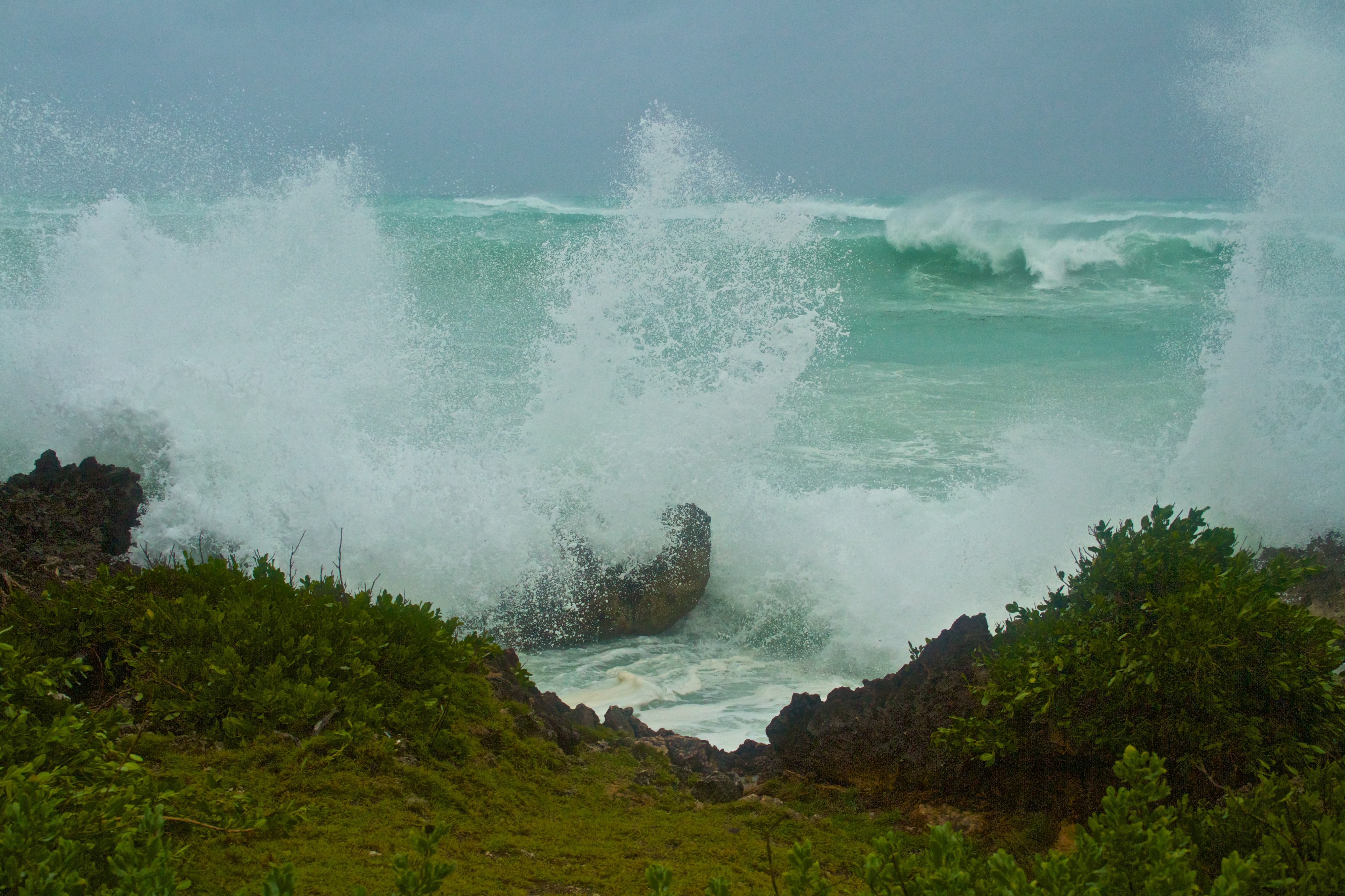 Large waves produced by Hurricane Igor along the coast Bermuda